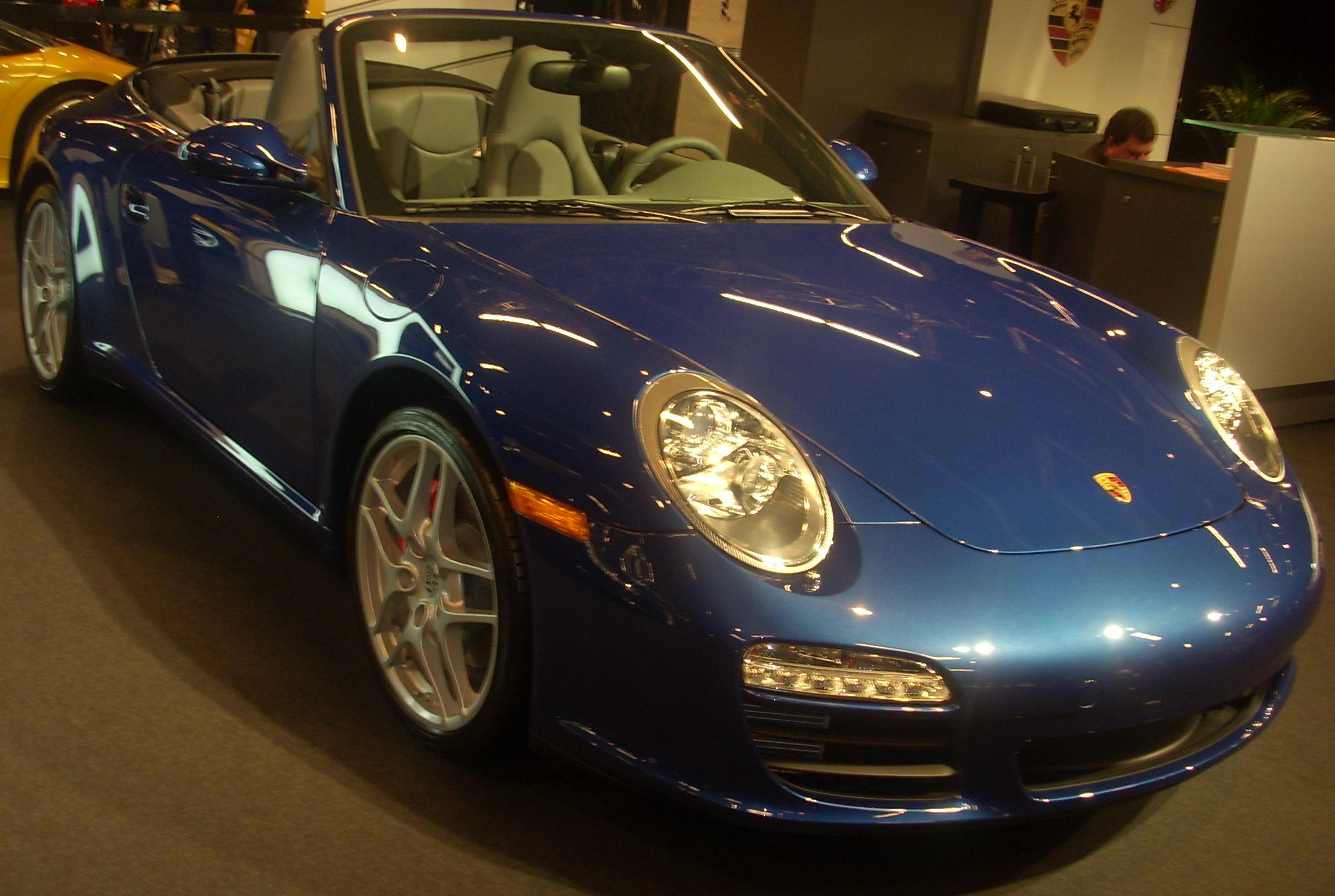 2009 Porsche 911 photographed at the 2009 Montreal International Auto Show